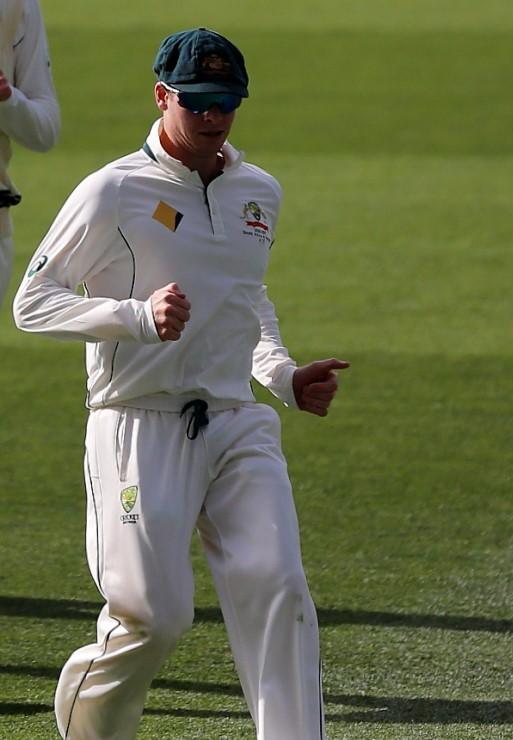 Steve Smith during a cricket match against South African cricket team